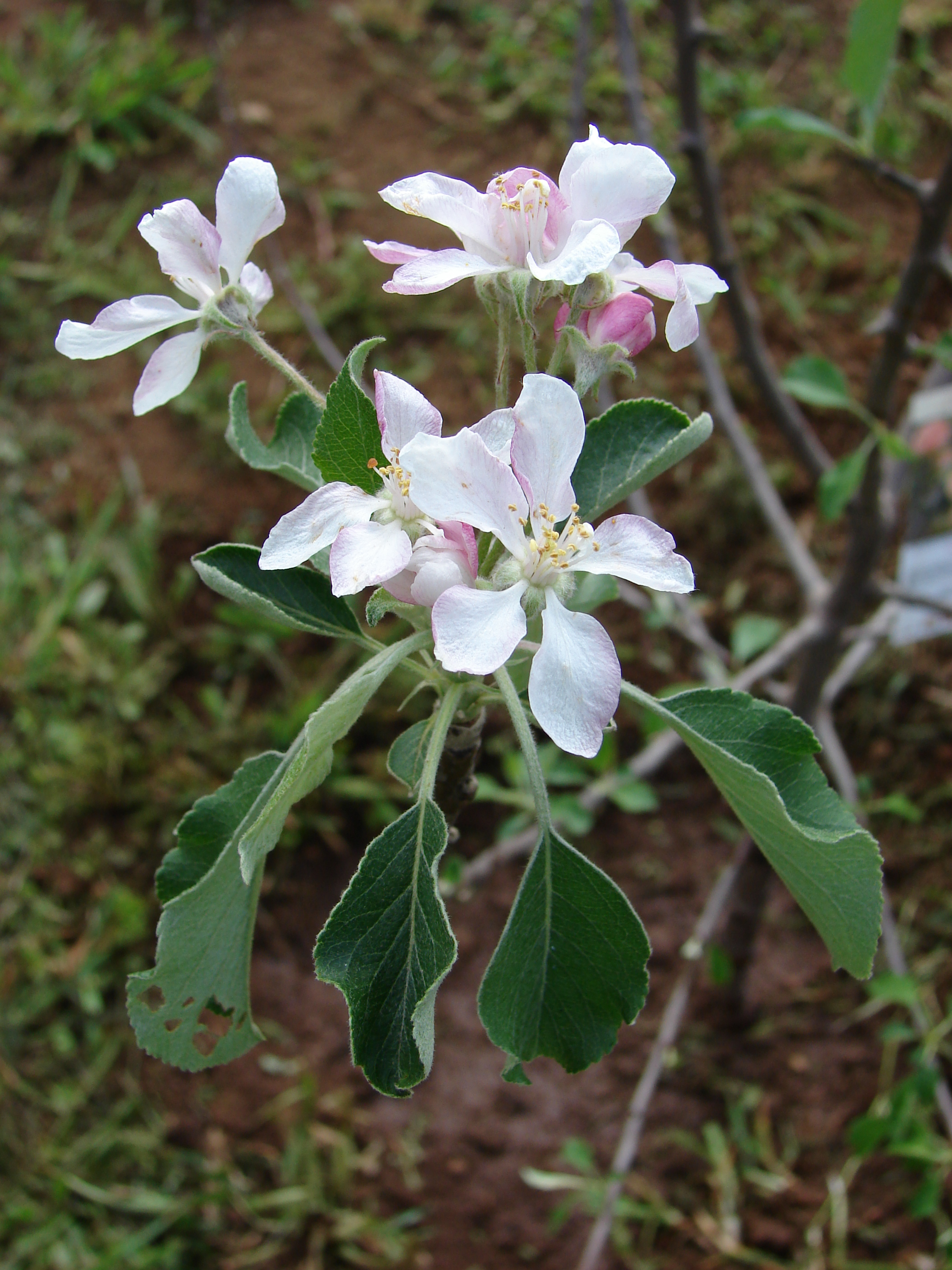 Malus sp. (EZ pick Dorsett golden apple flowers and leaves). Location: Maui, Olinda